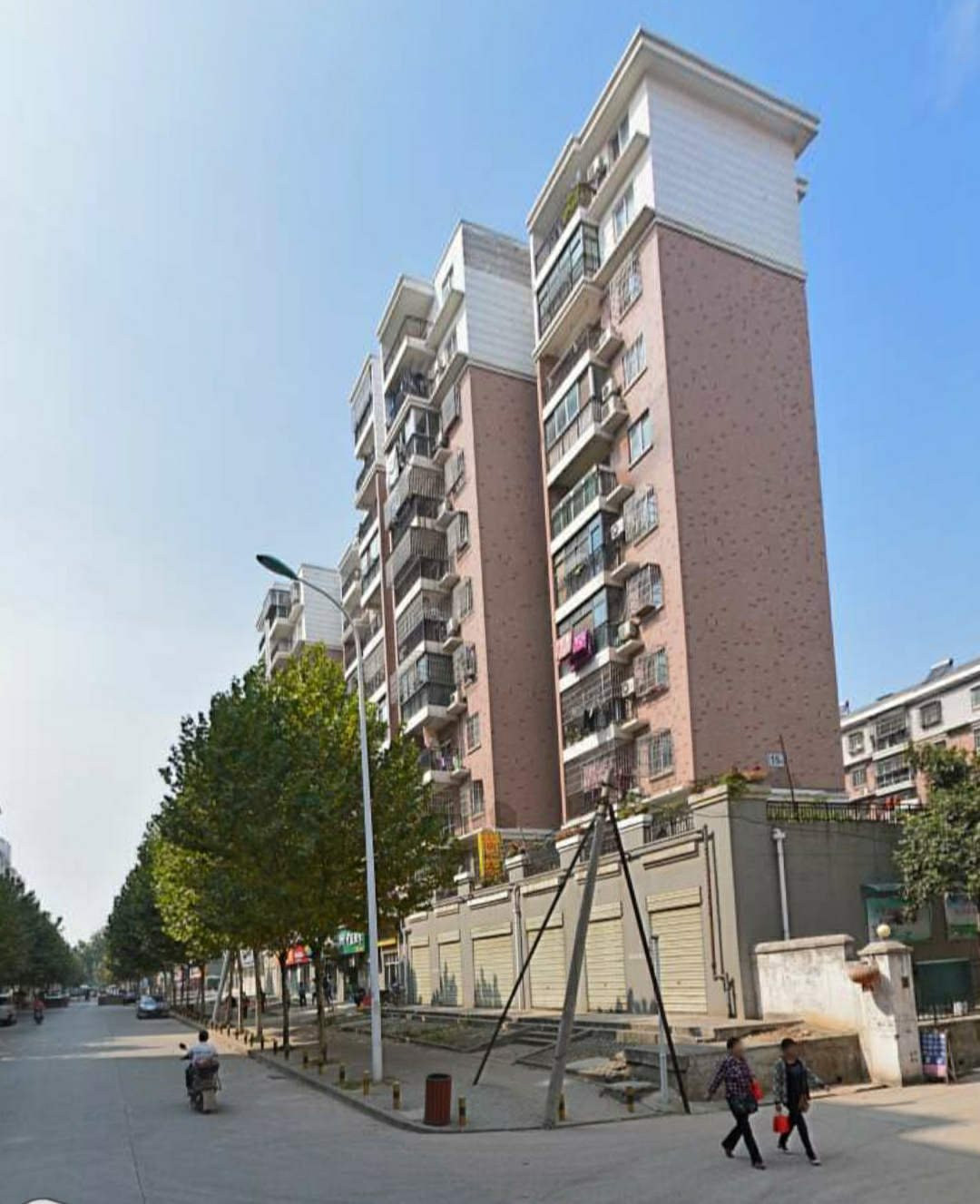 Kangmei Road,Baiyushan Subdistrict.